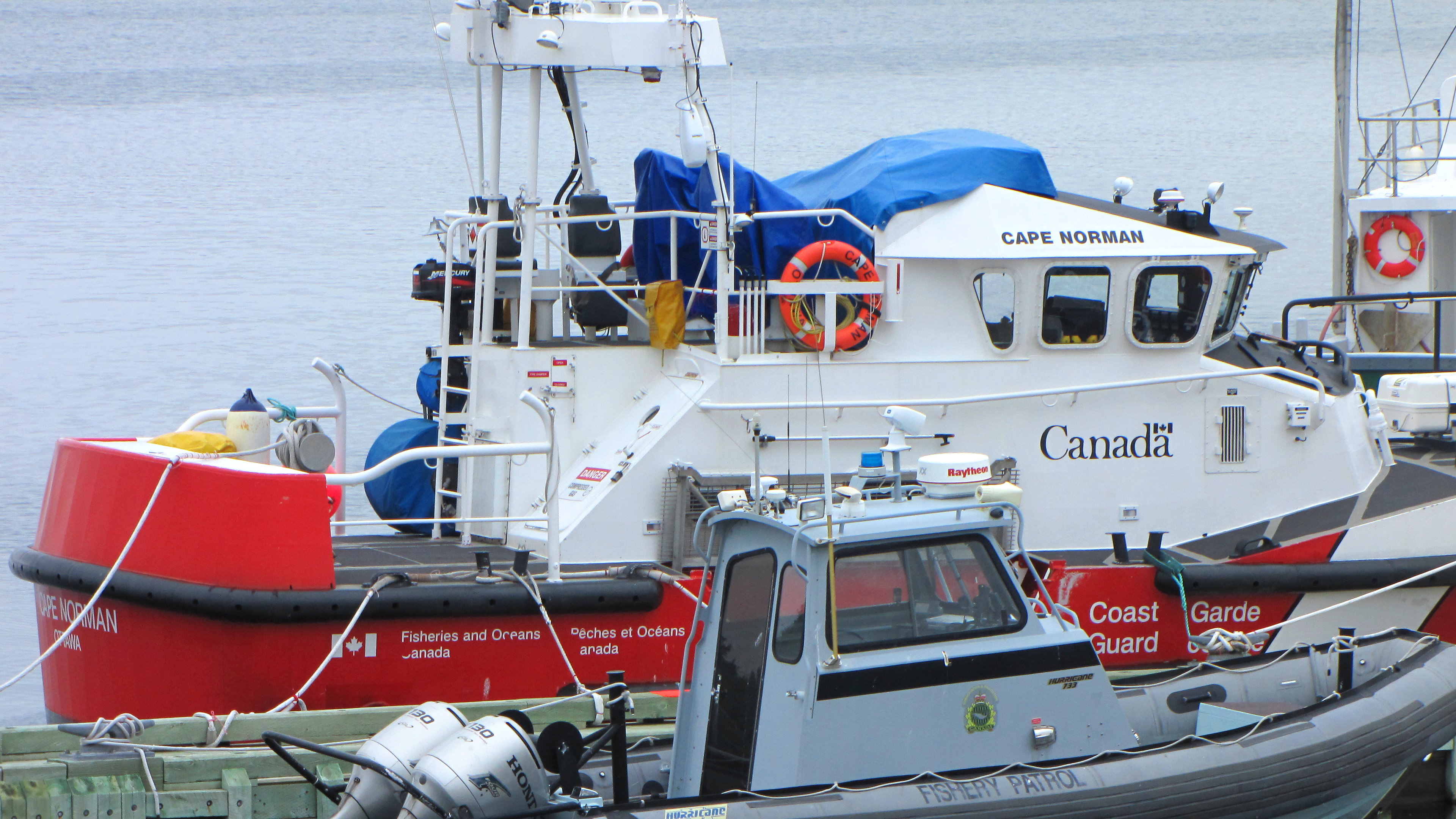 CCGS Cape Norman, Search and Resque (SAR) vessel, based at Port aux Choix, Newfoundland and Labrador